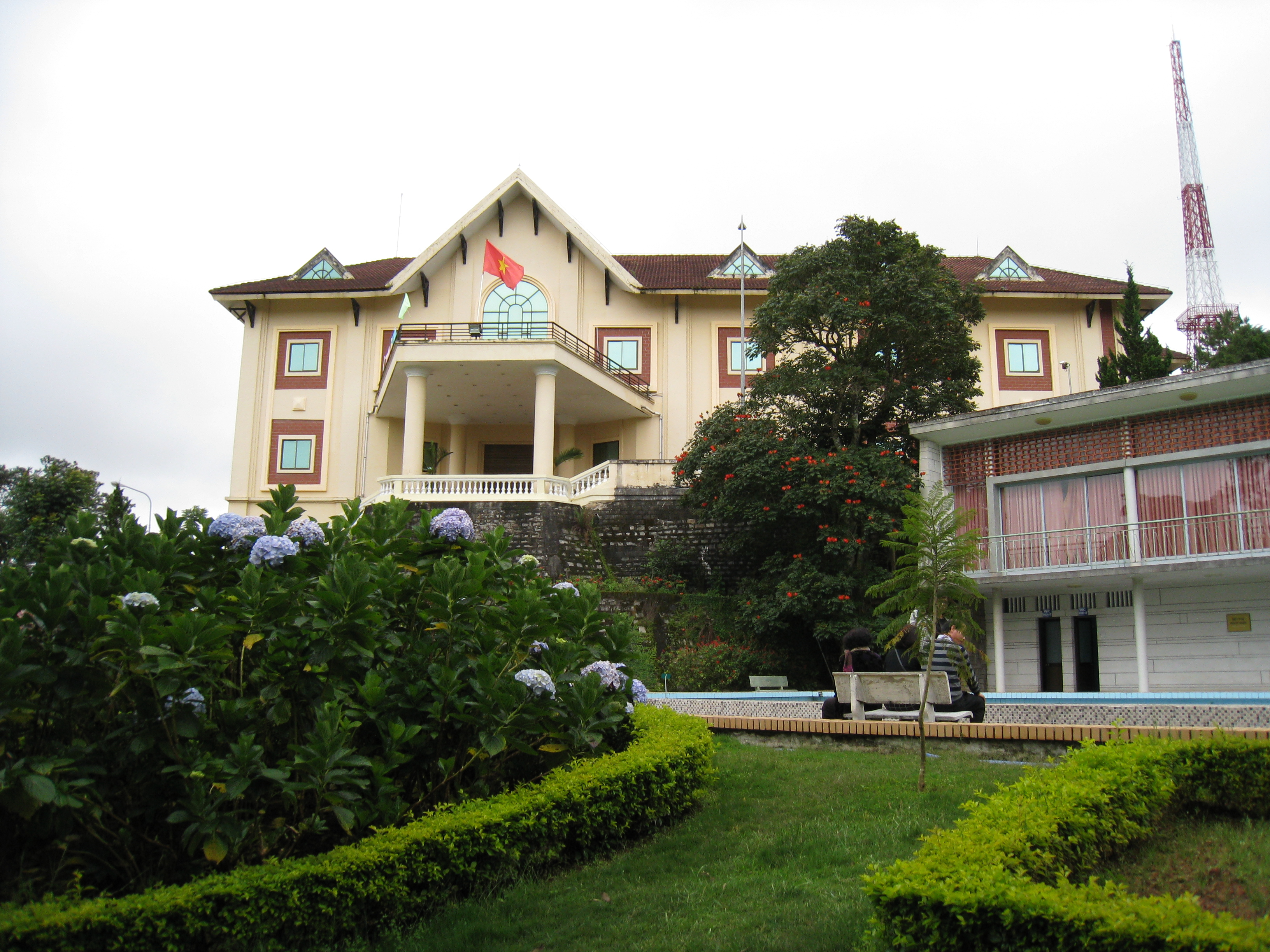 Tran Le Xuan Castle 2